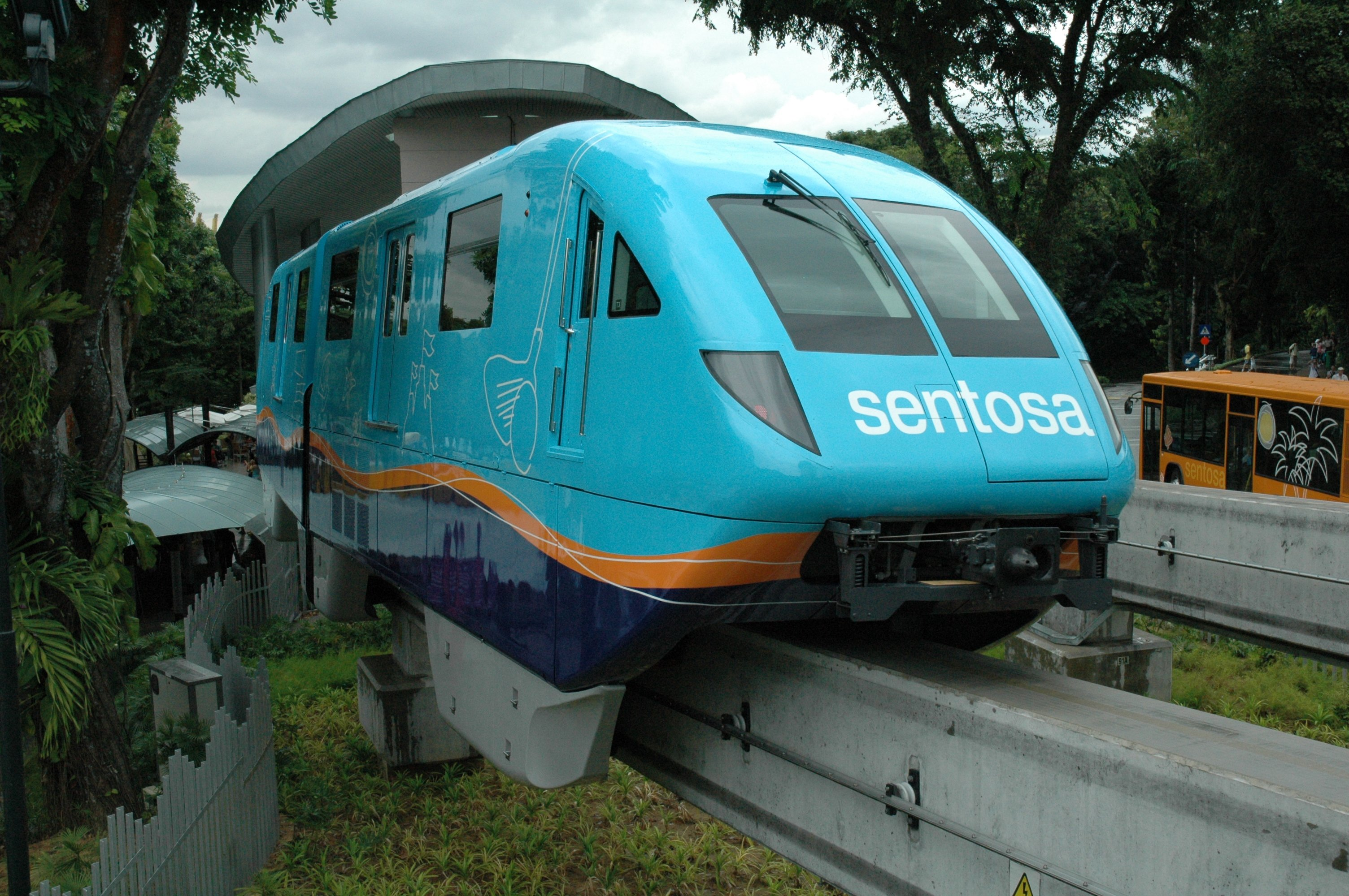 Sentosa Express "Blue" train, pulling into Imbiah Station